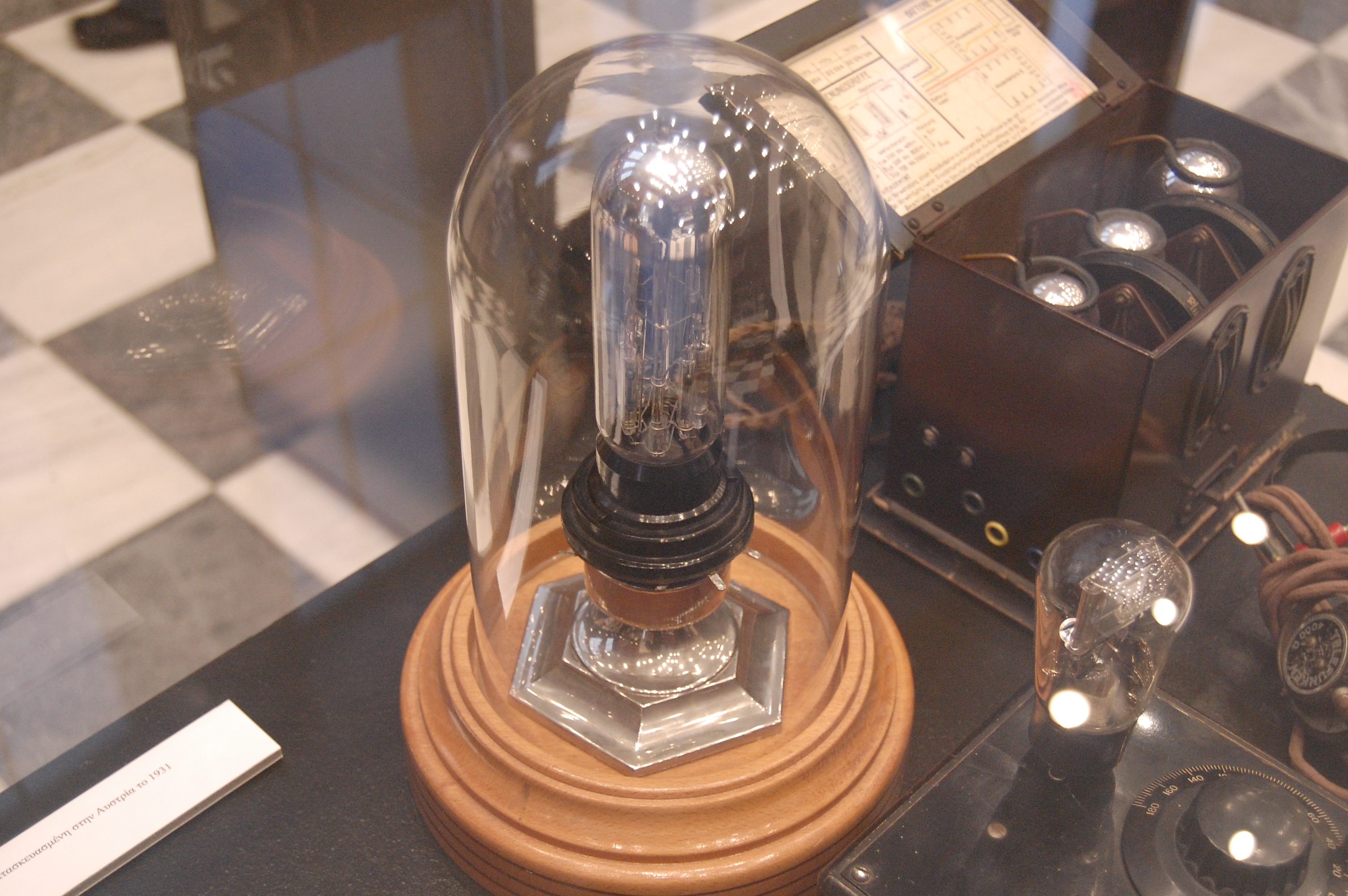 A Loewe 1931 vacuum tube (possibly the 3NF or a similar model) that integrated multiple functions in a single tube, a predecessor to the integrated circuit.